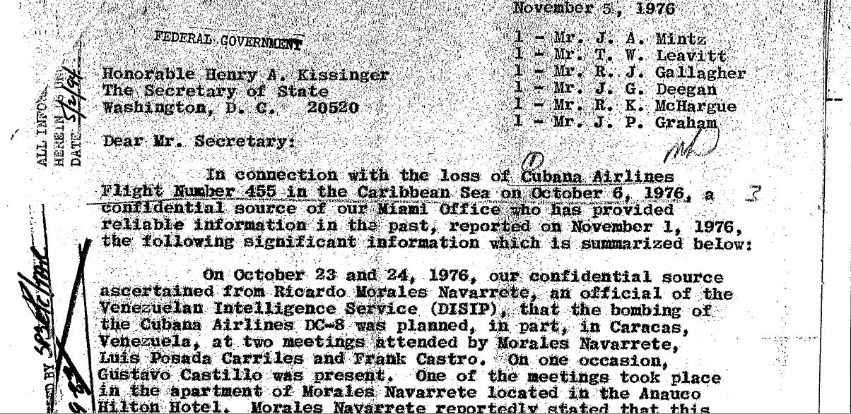 November 5, 1976, report from FBI director Clarence Kelly to Secretary of State Henry Kissinger.